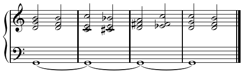 Pedal point example Created with Sibelius